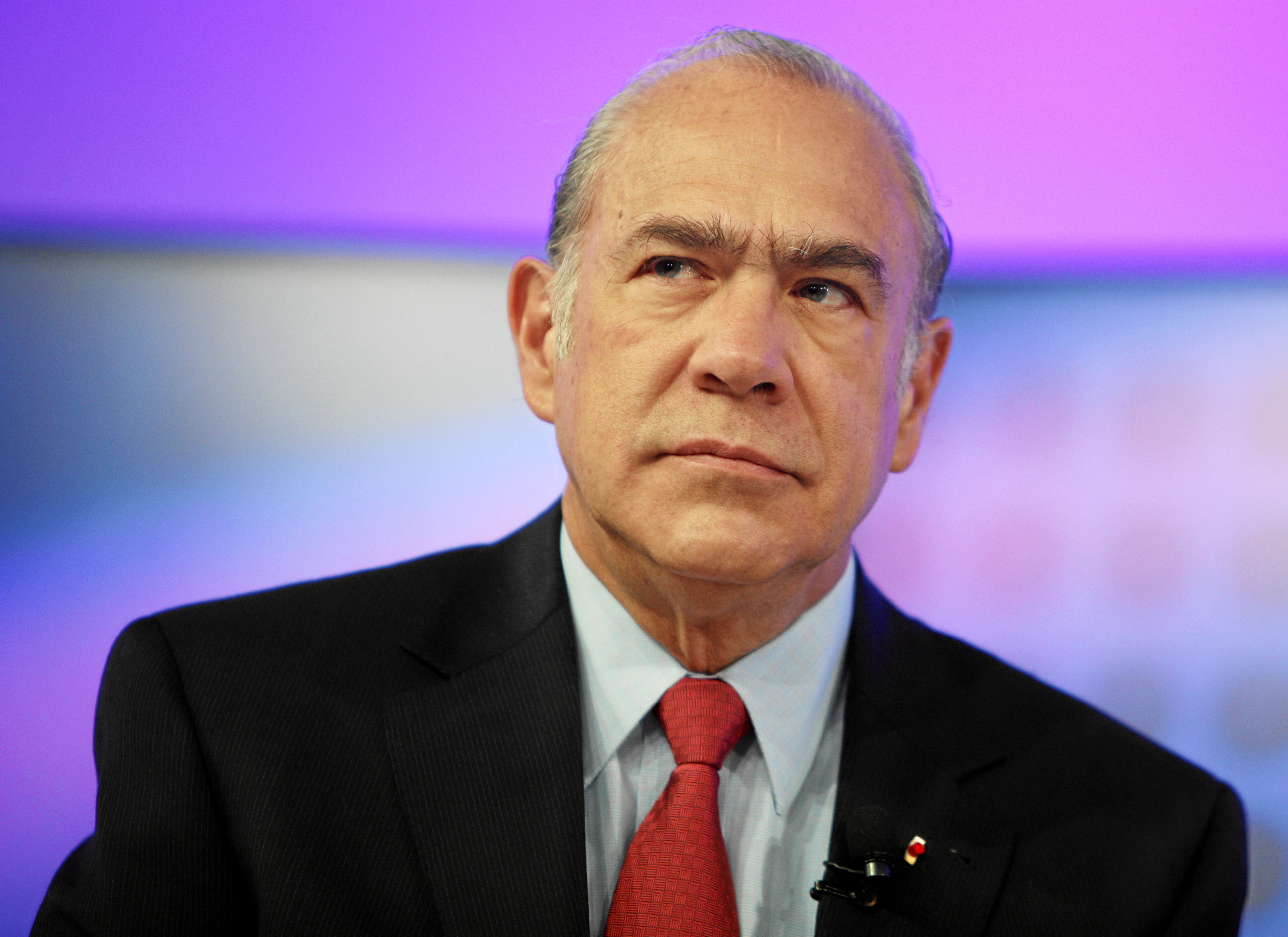 DAVOS/SWITZERLAND, 27JAN12 - Angel Gurria, Secretary-General, Organisation for Economic Co-operation and Development (OECD), Paris; Global Agenda Council on Water Security looks on during the session 'Fixing Capitalism' at the Annual Meeting 2012 of the World Economic Forum at the congress centre in Davos, Switzerland, January 27, 2012.. . Copyright by World Economic Forum. by Sebastian Derungs